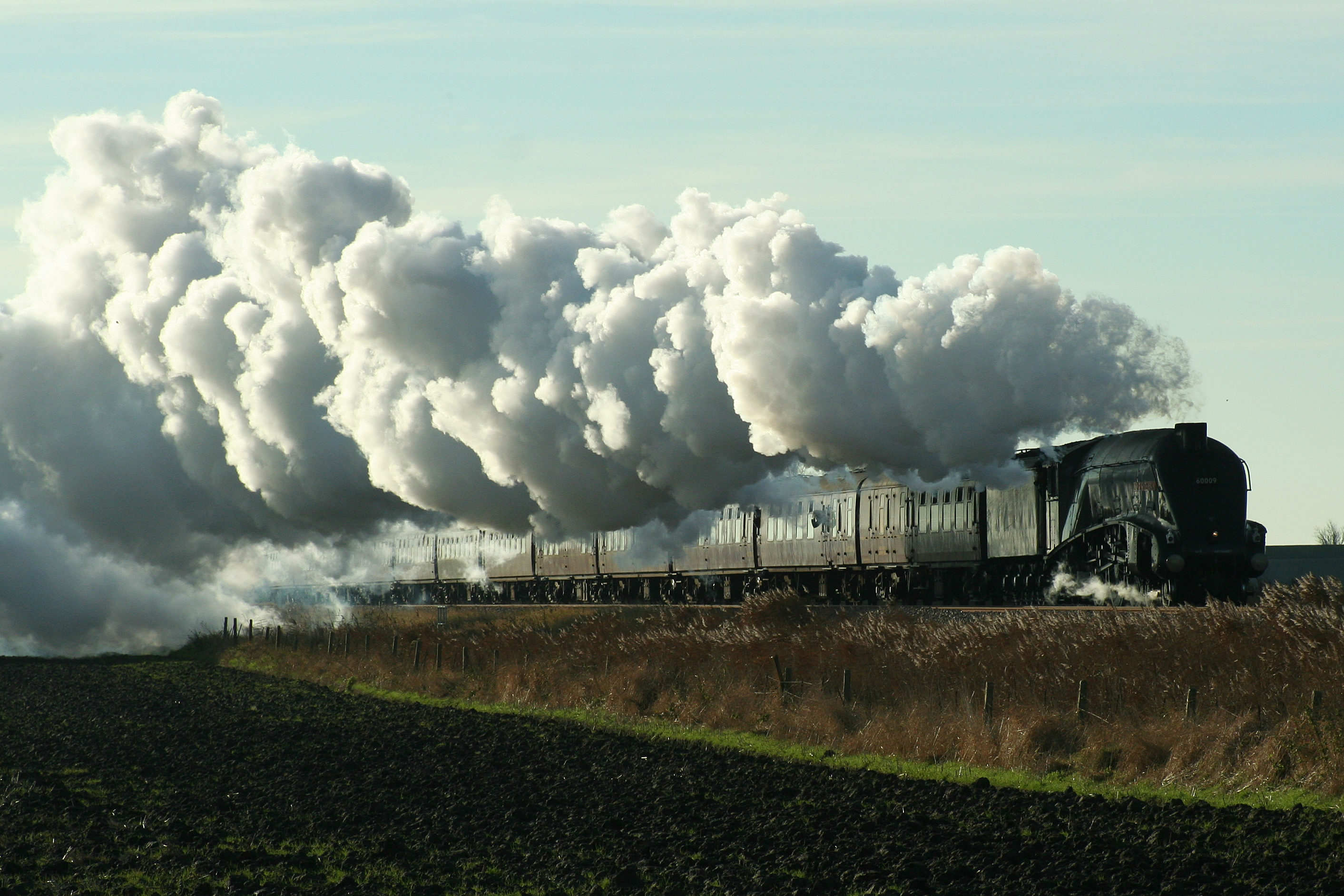 In BR livery, LNER A4 pacific No60009 'Union of South Africa' heads 'The Lindum Christmas Fayre' railtour from Kings Cross to Lincoln. It is seen here accelerating away towards Spalding after the 5mph restriction for Campain's Lane crossing near Deeping St Nicholas. 08-12-2012